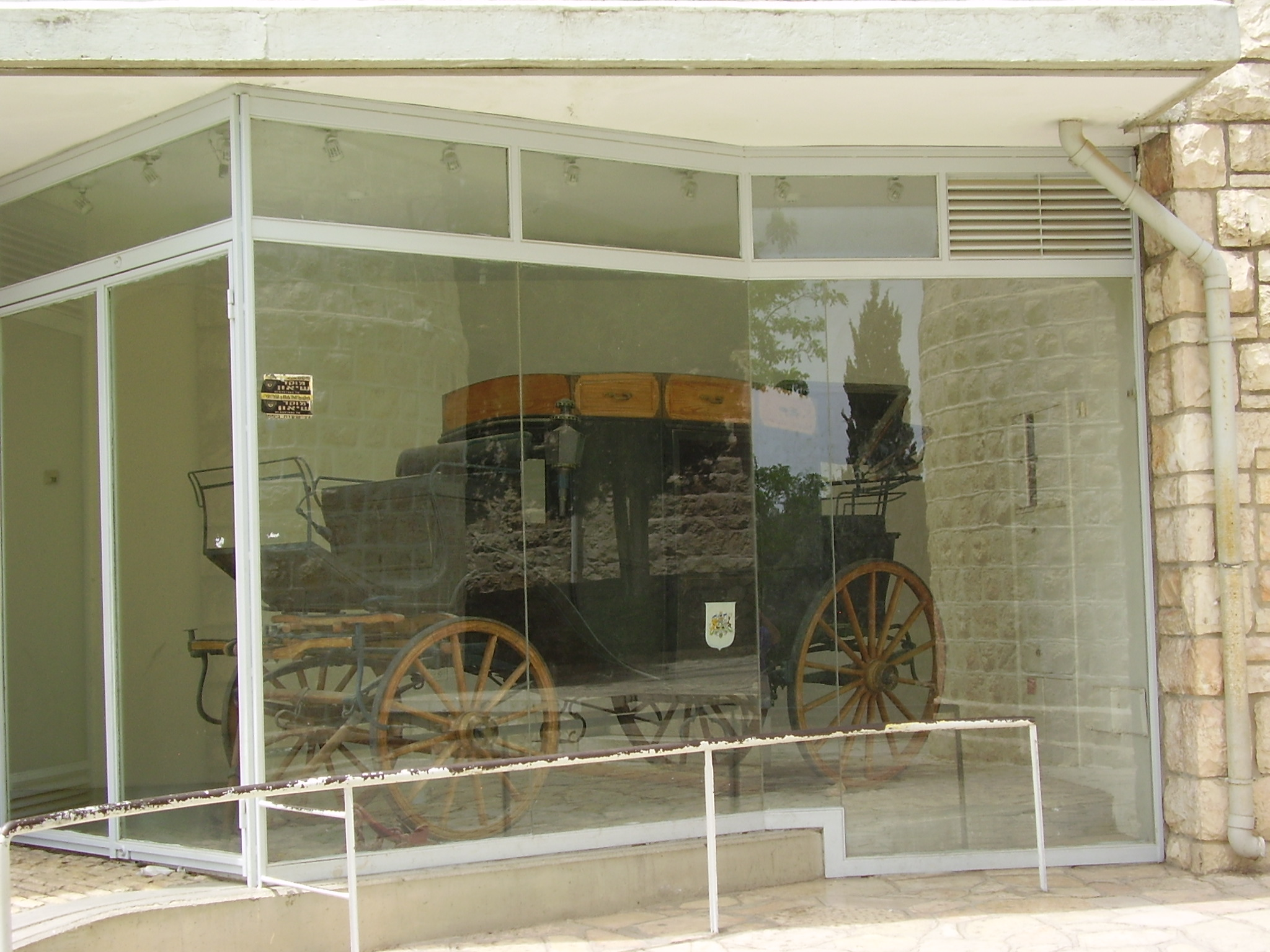 moses montifiore carriage